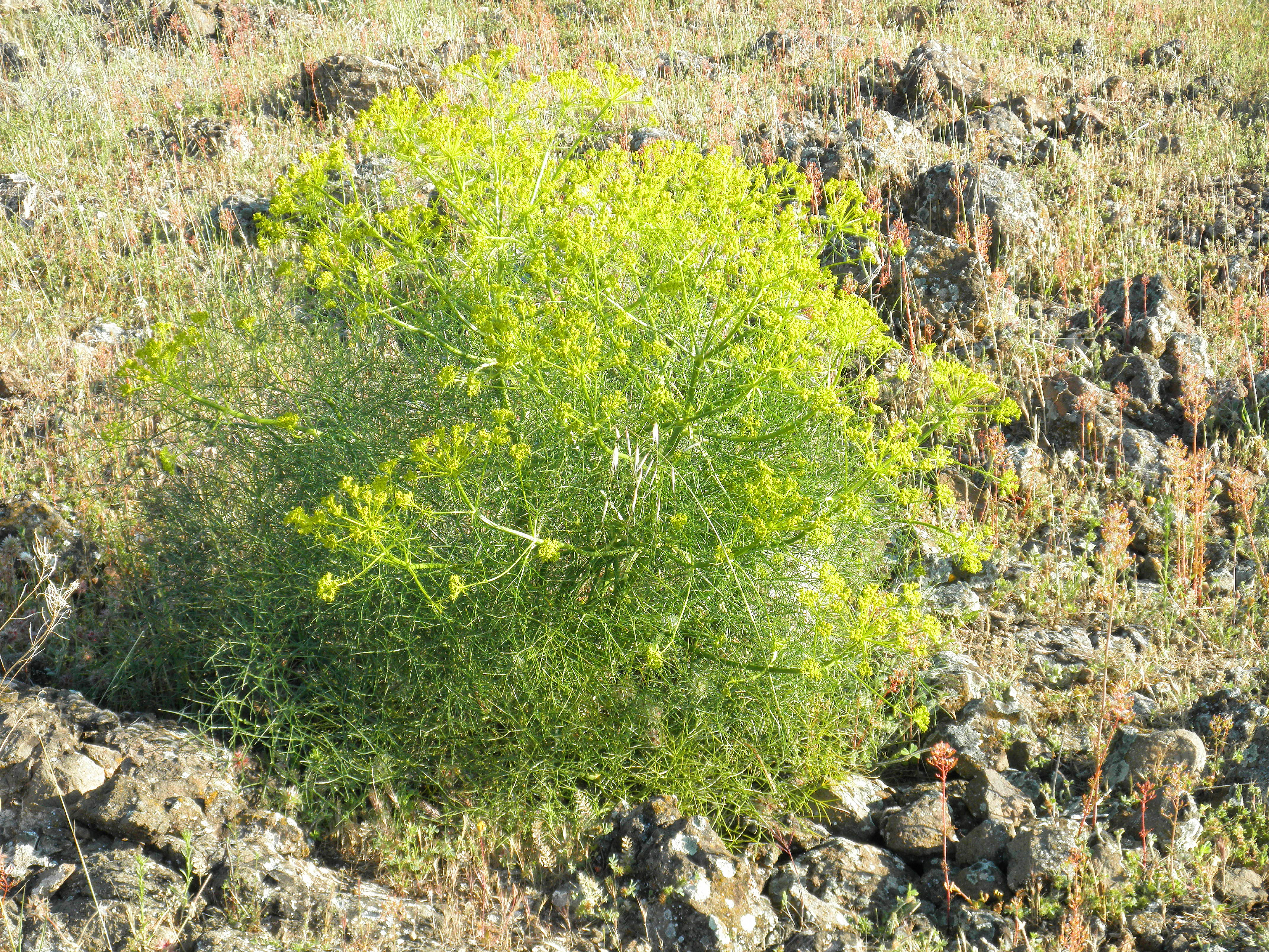 Cachrys sicula habit, in "Cabeza Parda" volcanoCampo de Calatrava, Spain